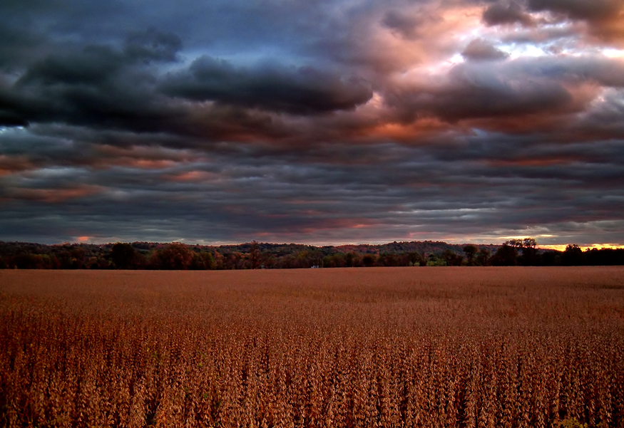 Field and sky, Frelinghuysen Township, Warren County.